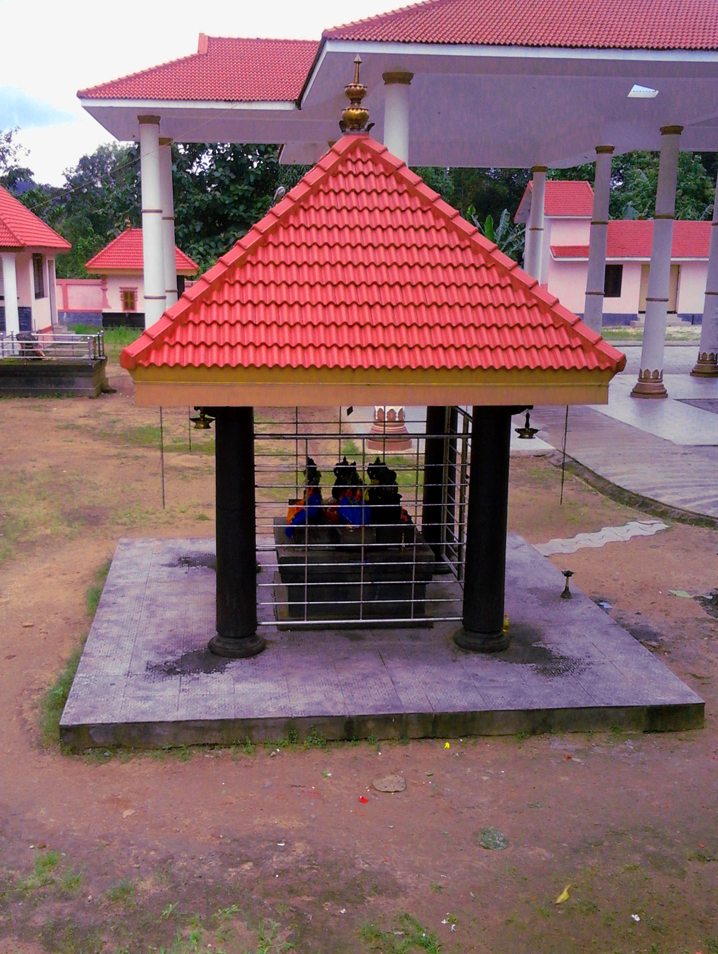 Thalavoor Thrikkonnamarkodu Durga Devi Temple Navagraha Mandapa